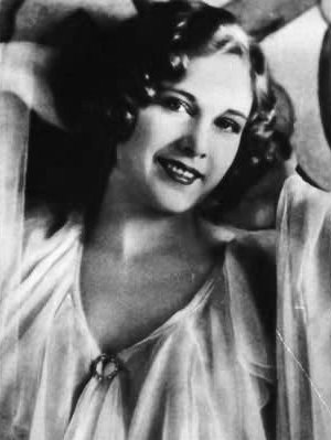 Publicity photo of Esther Ralston from Stars of the Photoplay